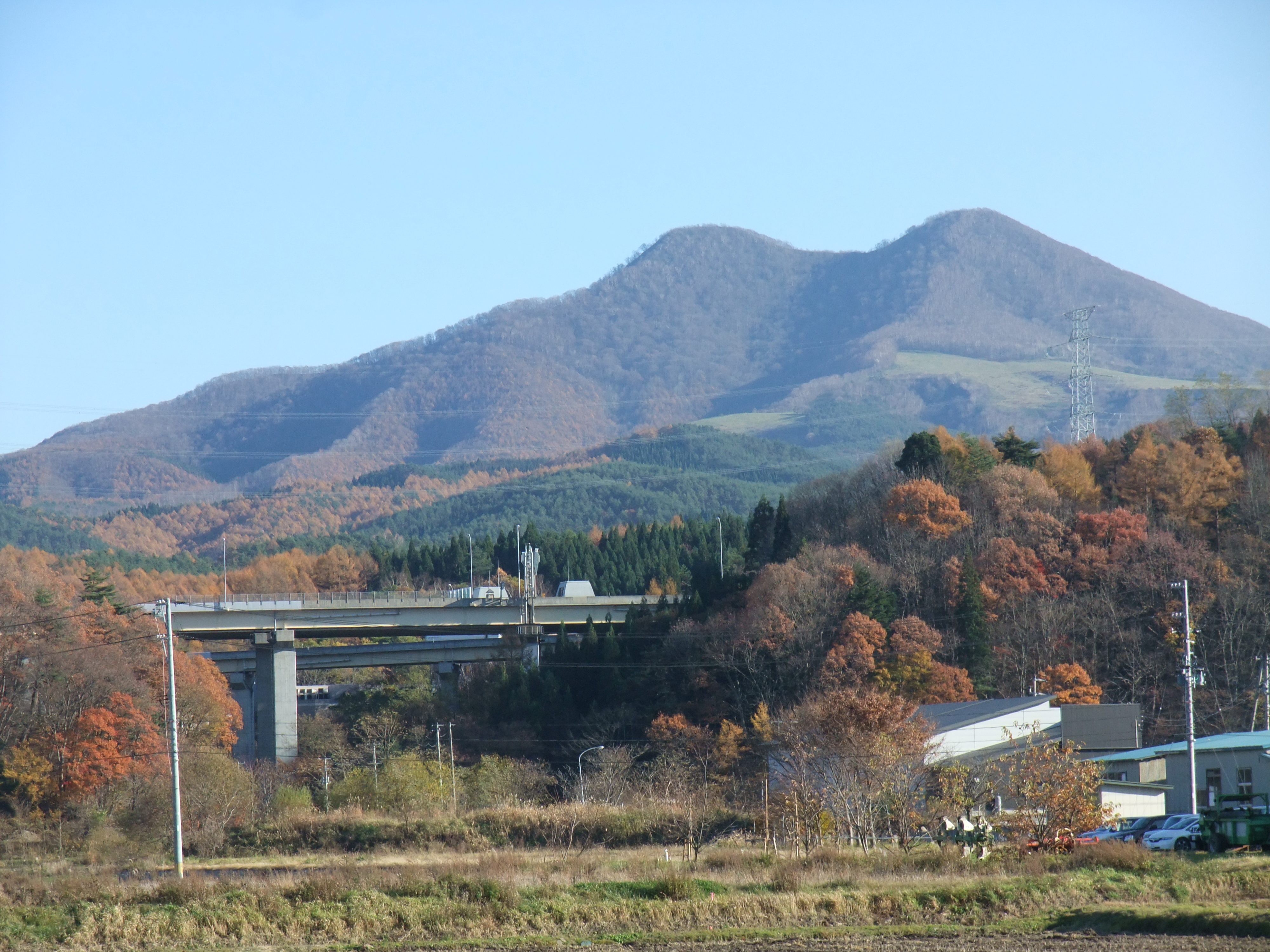 Mount Nanashigure (Nanashigureyama) in Hachimantai, Iwate, Japan, as seen from Araya District